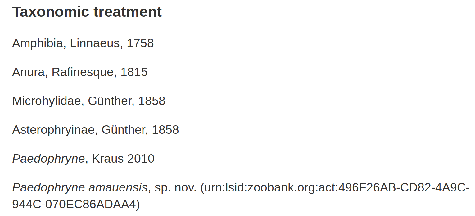 Taxon treatment for Paedophryne amauensis Rittmeyer, Allison, Gründler, Thompson & Austin, 2012. Includes the ZooBank identifier for this nomenclatural act.